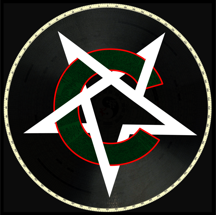 cryptoanarchism logo